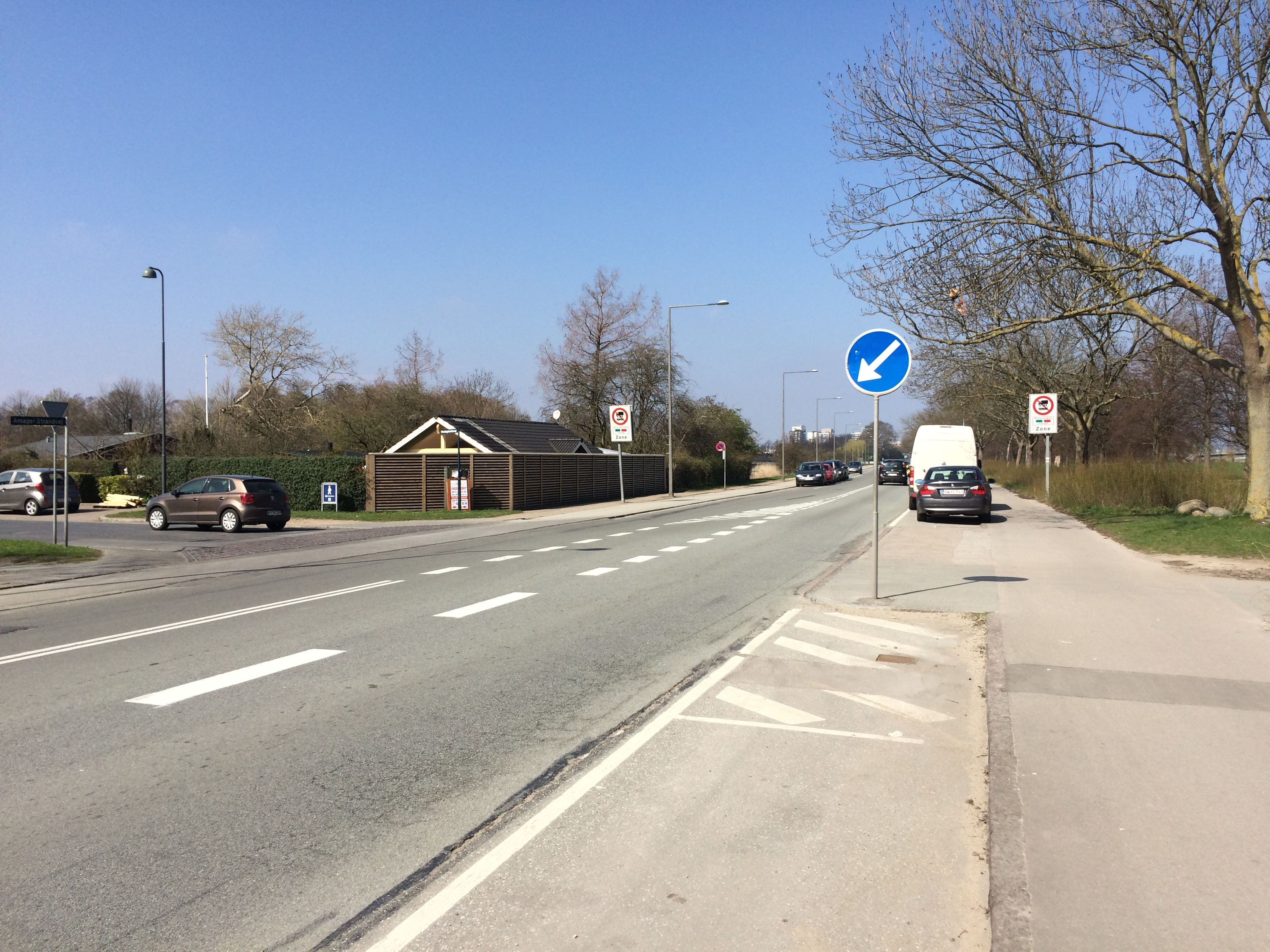 Amager Strandvej, Copenhagen in 2017